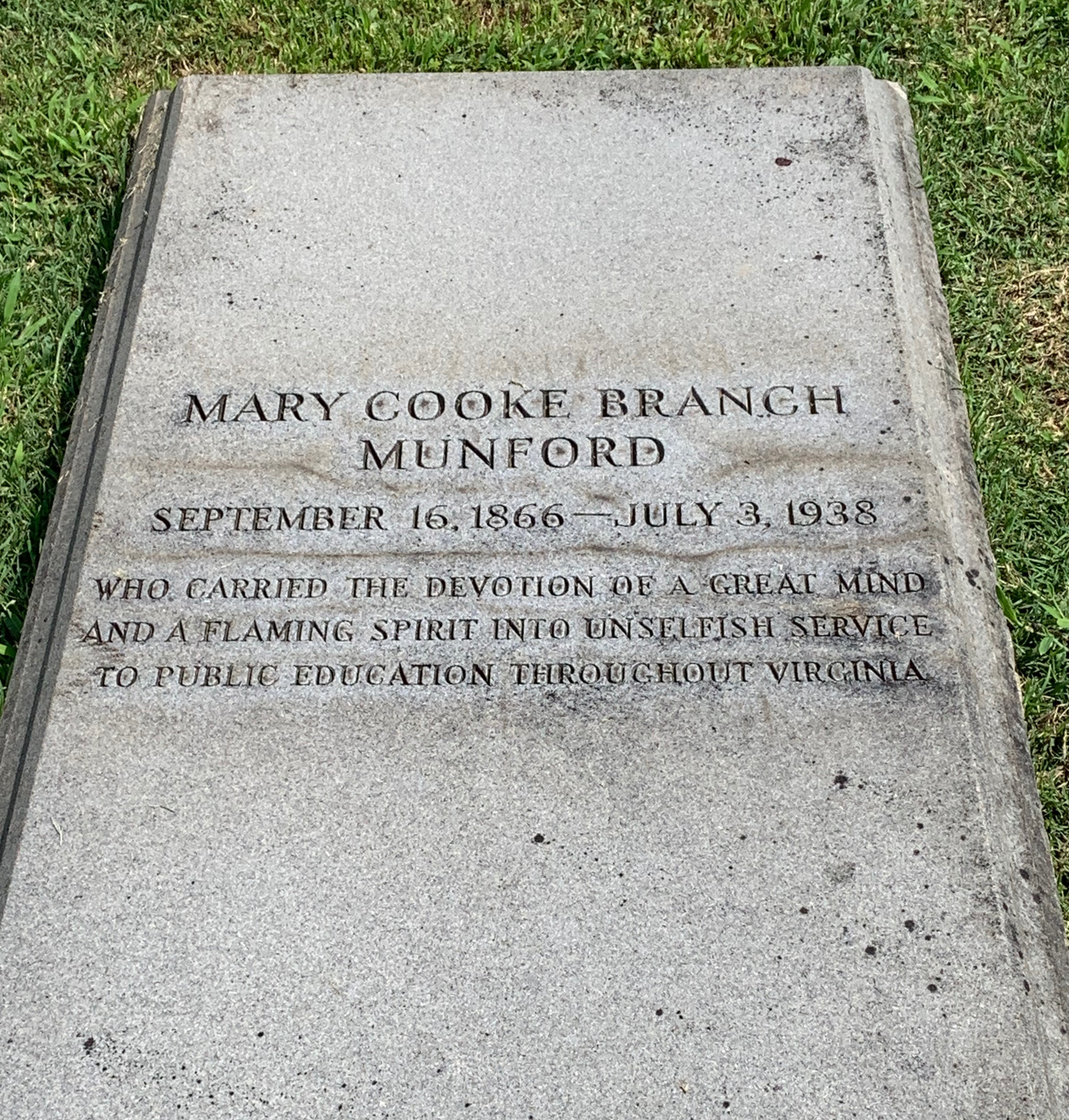 Gravestone of Mary Cooke Branch Munford, located in Hollywood Cemetery, Richmond, Virginia, U.S.